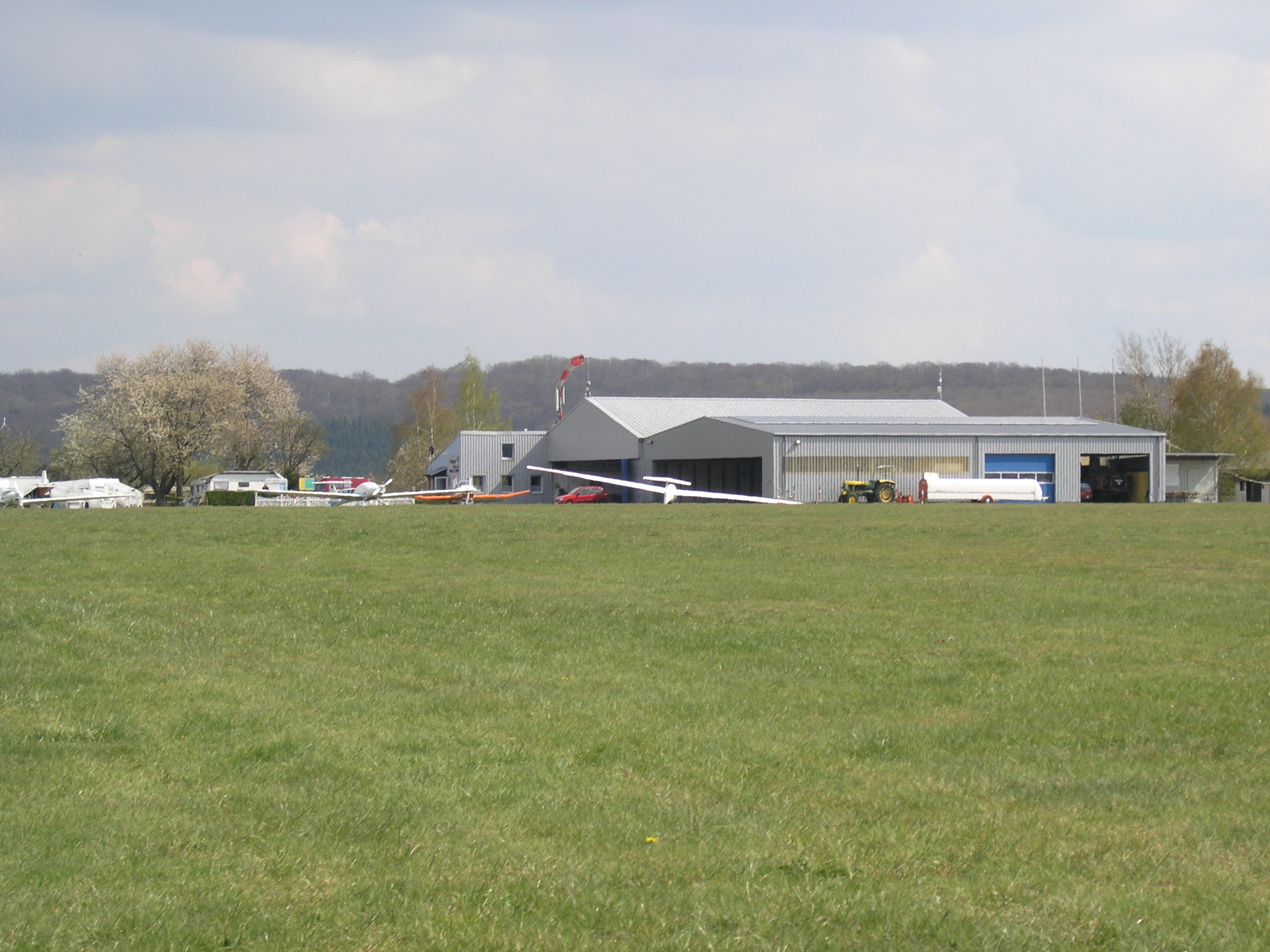 Some hangars of Marpingen glider field, seen from runway.